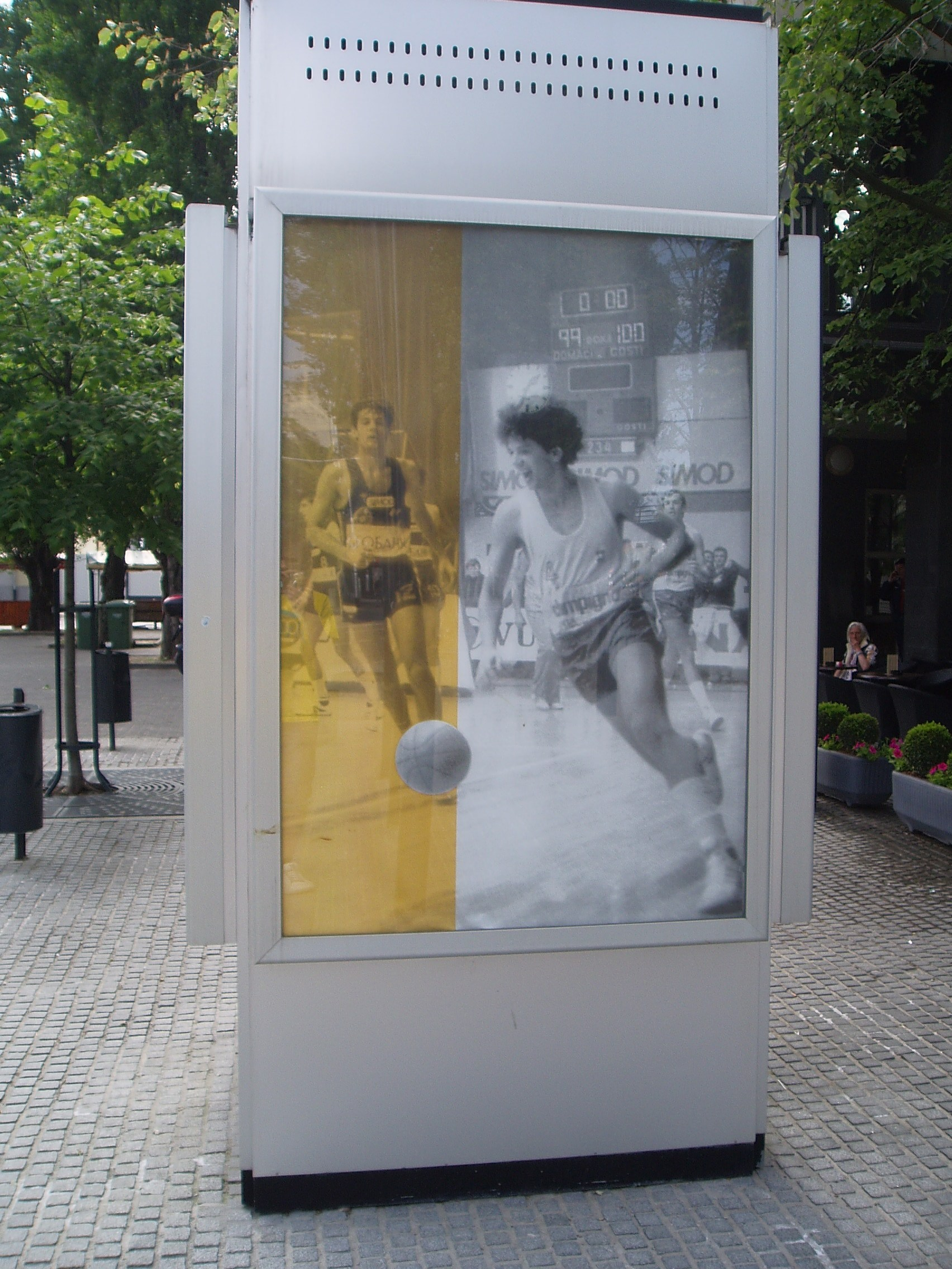 Poster of Drazen Petrovic in front of the Drazen Petrovic museum